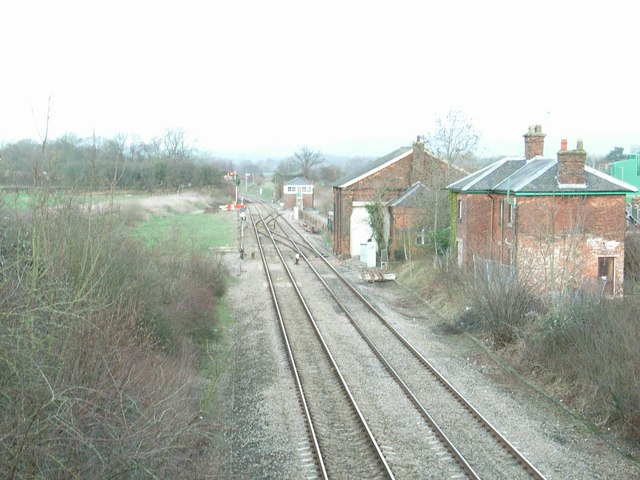 Woofferton station (disused) The site of the former station at Woofferton. The posts that once held the station nameboard still stand, just to the right. The next building after the station buildings was formerly the goods shed. Woofferton was a junction station, with a branch line running to Bewdley, via Tenbury Wells. This line diverged to the right from the current, main line just after the station.